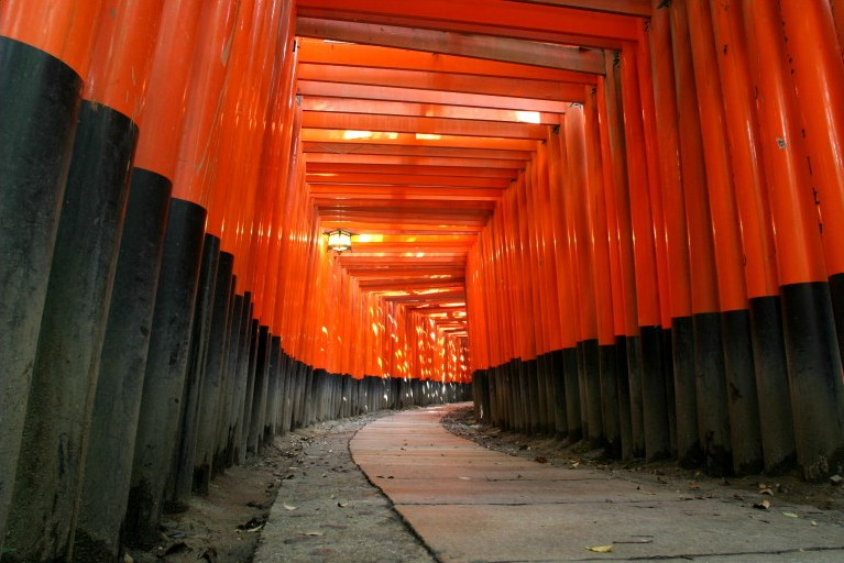 Archway at Fushimi Inari shrine, Kyoto, Japan.